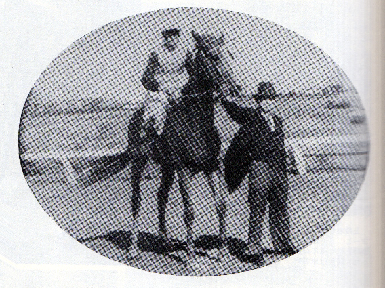 The 1st Satsuki sho (Japanese 2000guineas) winner Rock Park.